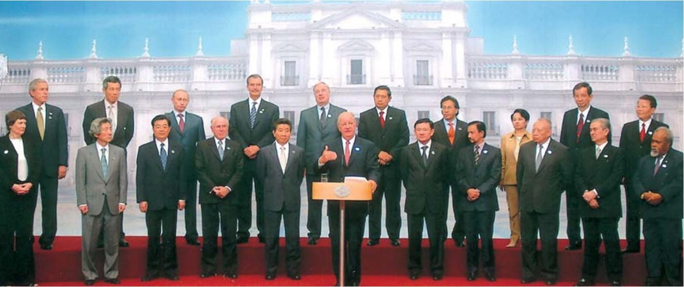 SANTIAGO, CHILE. Proclamation of the declaration "United Community is our Future". They don't give a specific licence in the source, but state: "Any materials in the Digest may be used freely but acknowledgement would be appreciated."